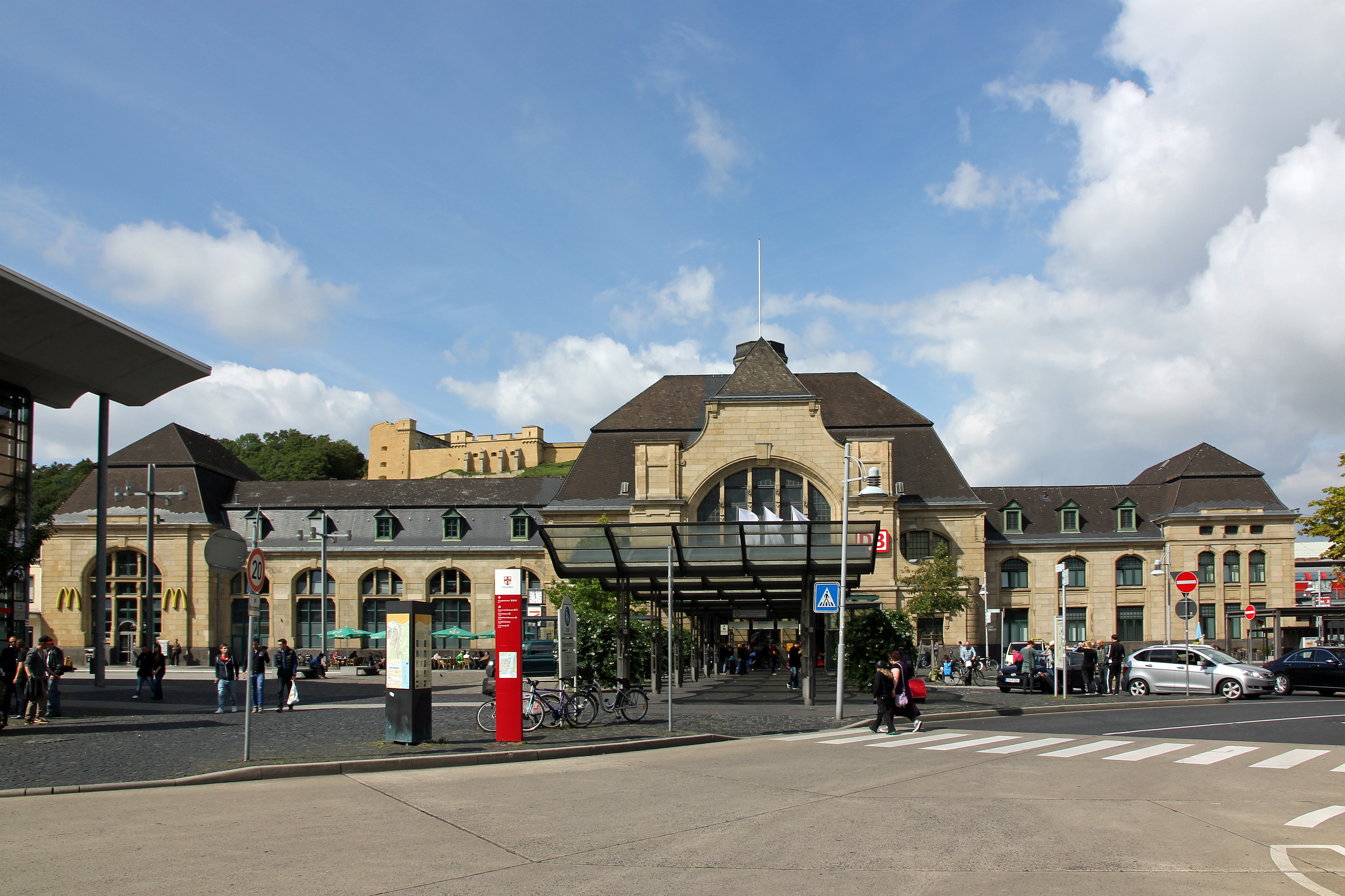 Main station in Koblenz